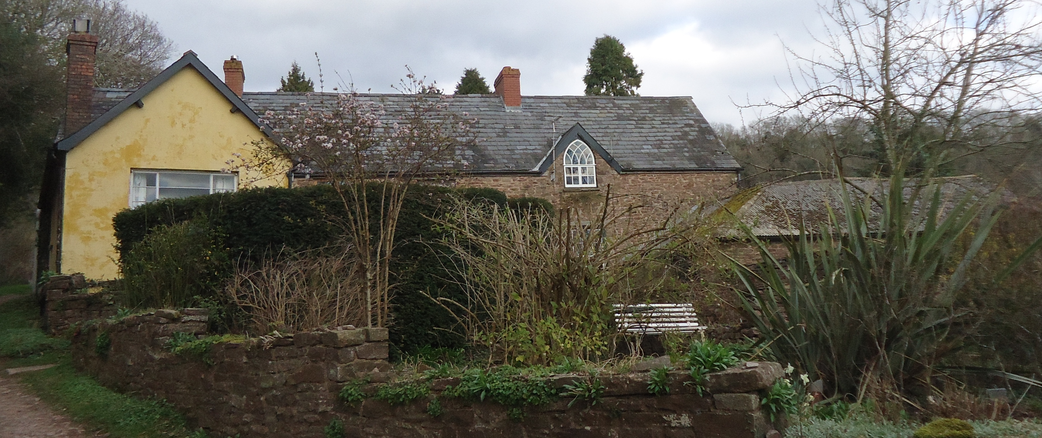 Lower Cwm, Llanrothal, Herefordshire